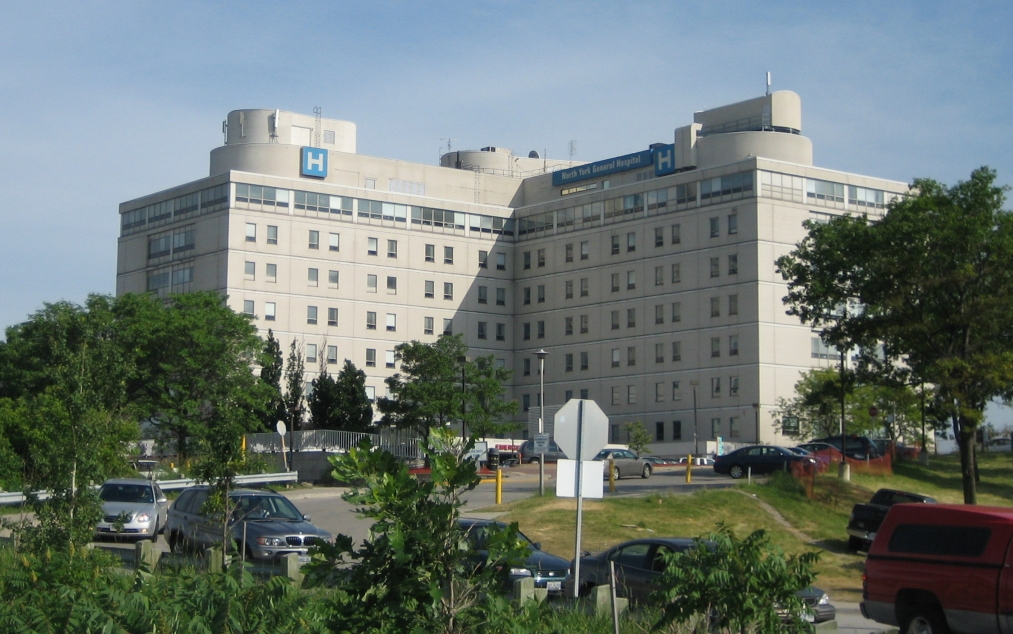 North York General Hospital -- from the northwest (Leslie & Sheppard)